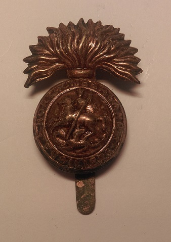 Photo of Royal Northumberland Fusiliers Cap Badge from personal collection